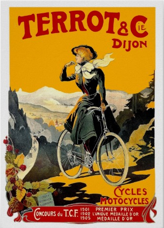 Advertising poster for Cycles Terrot by Tamagno